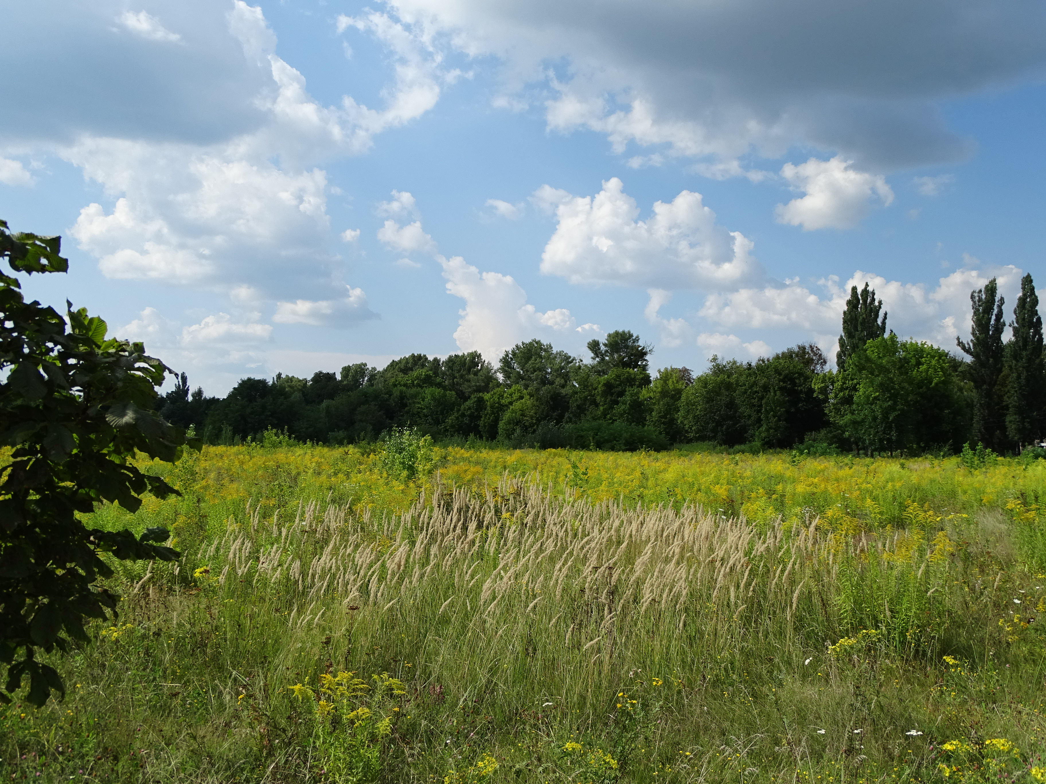 Battlefield of Poltava - Outside Battle of Poltava History Museum - Poltava - Ukraine - 01